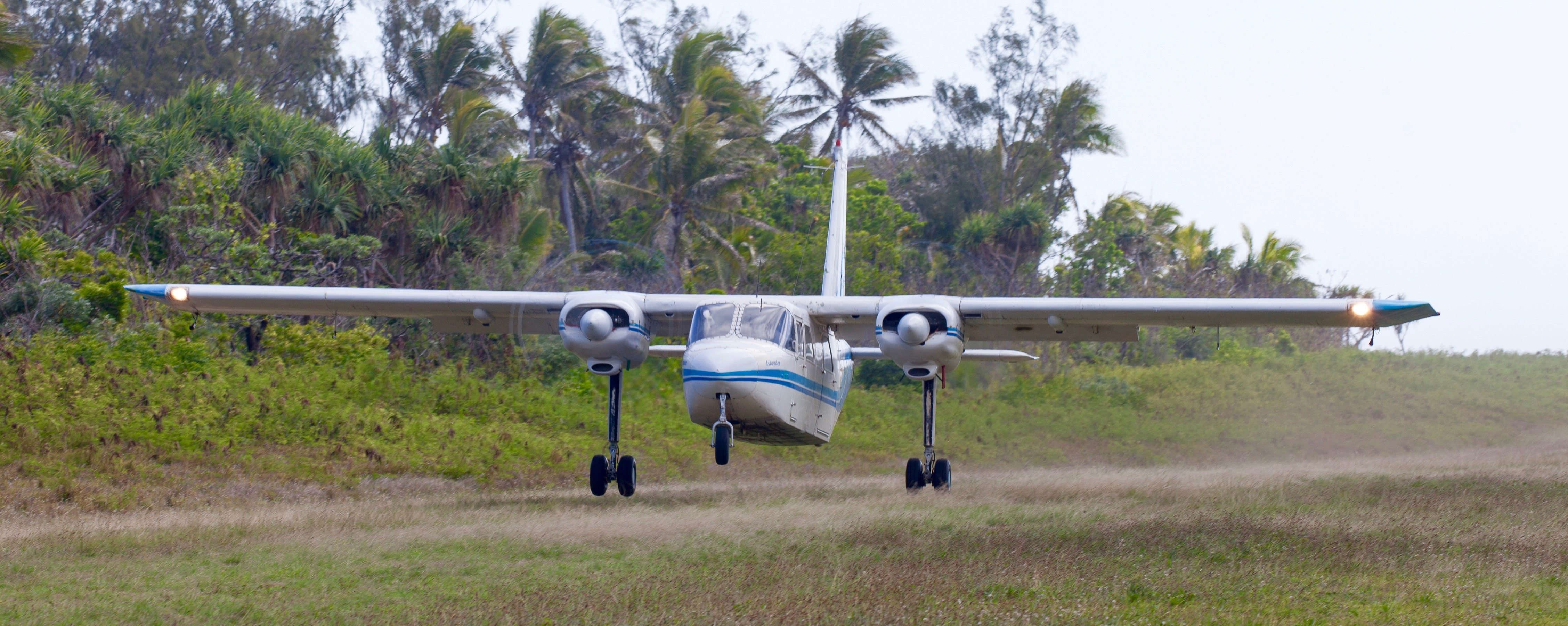 Unity Airlines Britten-Norman Islander (YJ-008) taking off at Aneityum Airport